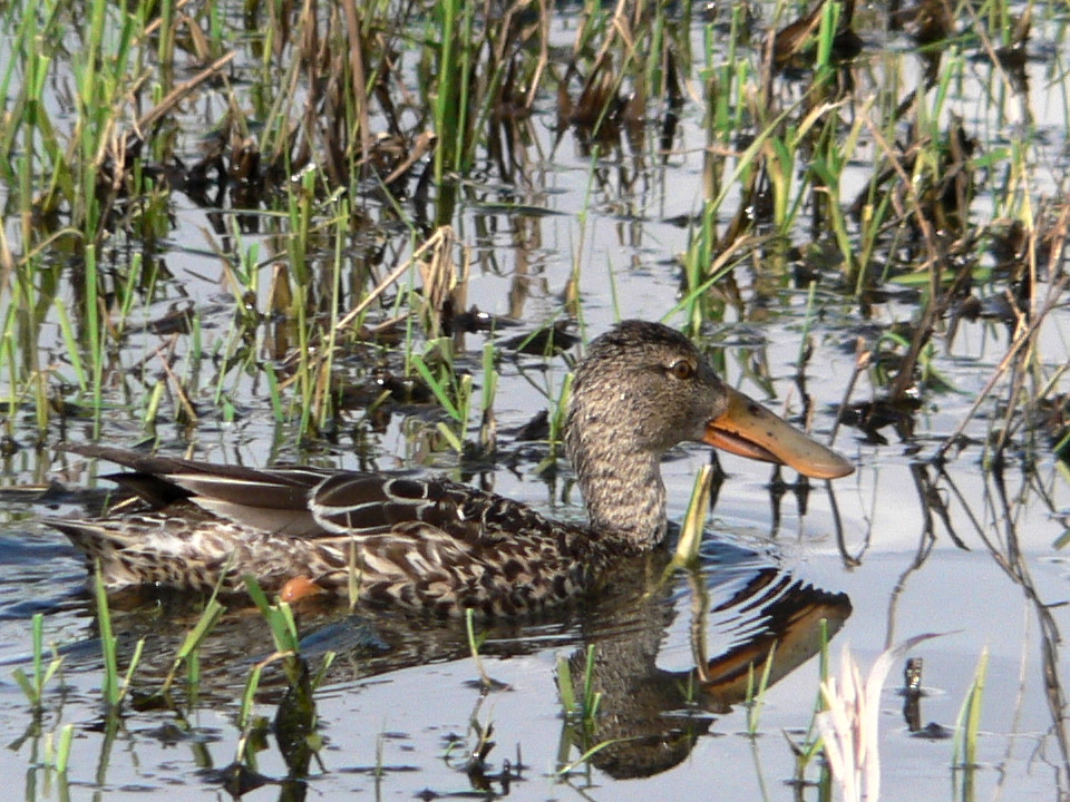 Northern Shoveler female